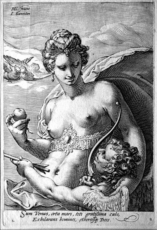 Part of the series {name }. Venus, pleasing to gods and men, holding the golden apple awarded to her by Paris to signify her the most beautiful of the goddesses, the indirect cause of the fall of Troy, accompanied by her son Cupid, whose arrows have power even over the gods.